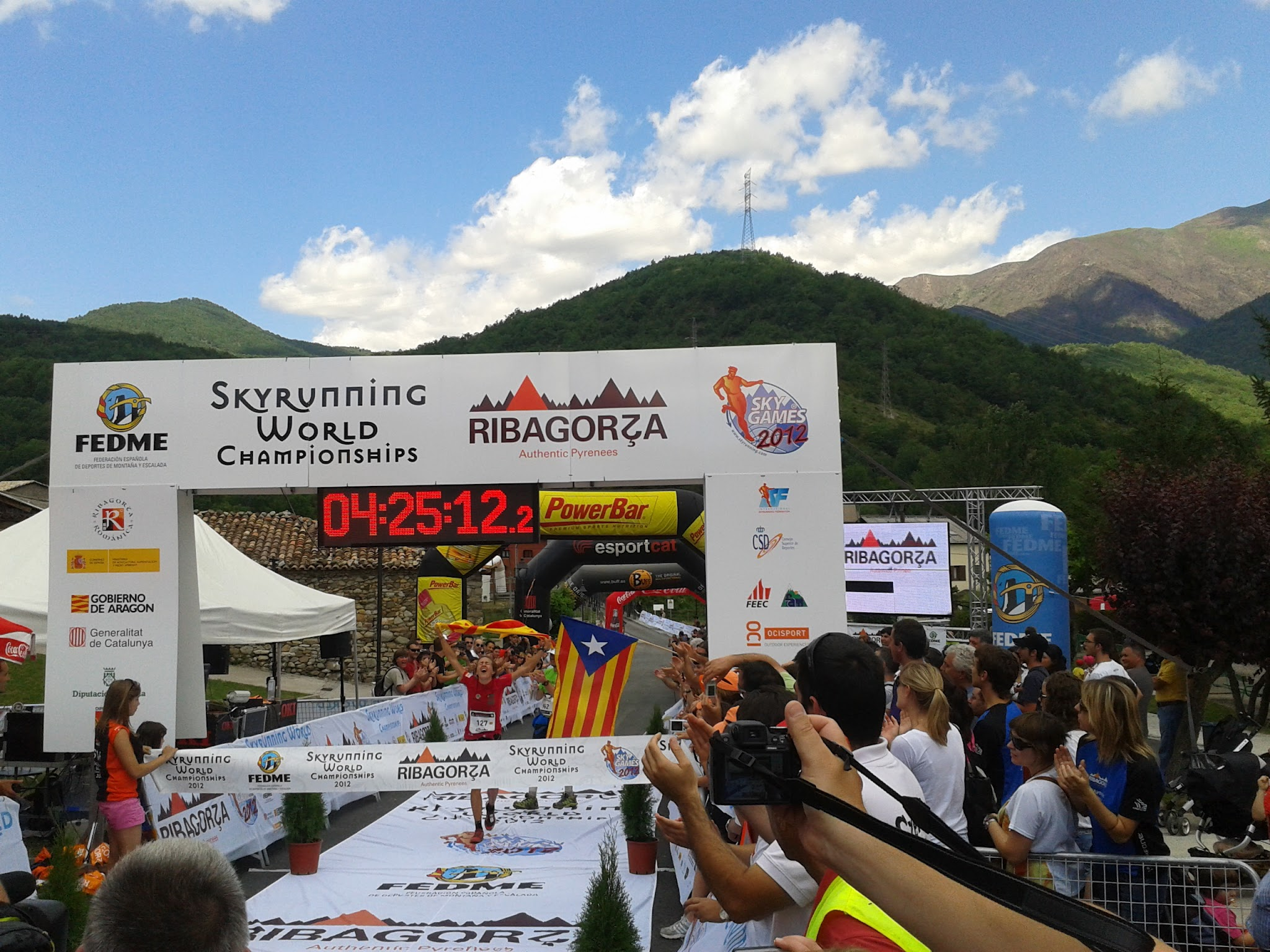 Catalan athlete Núria Picas at the finish line of the SkyMarathon and becoming the 2012 world champion of the discipline